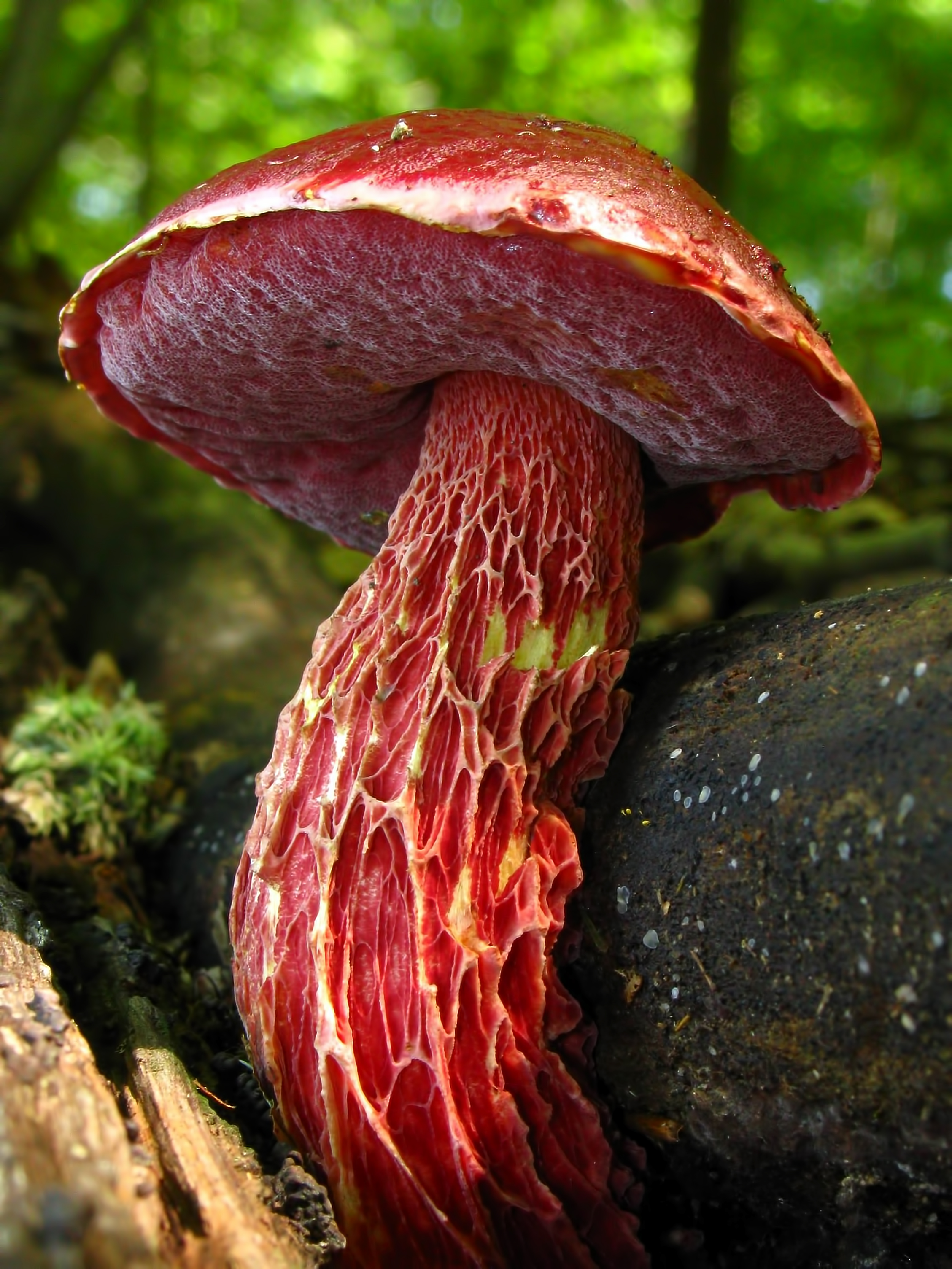 A fruit body of the bolete fungus Boletus frostii Russell. Specimen photographed in Zaleski State Forest, Ohio, USA.